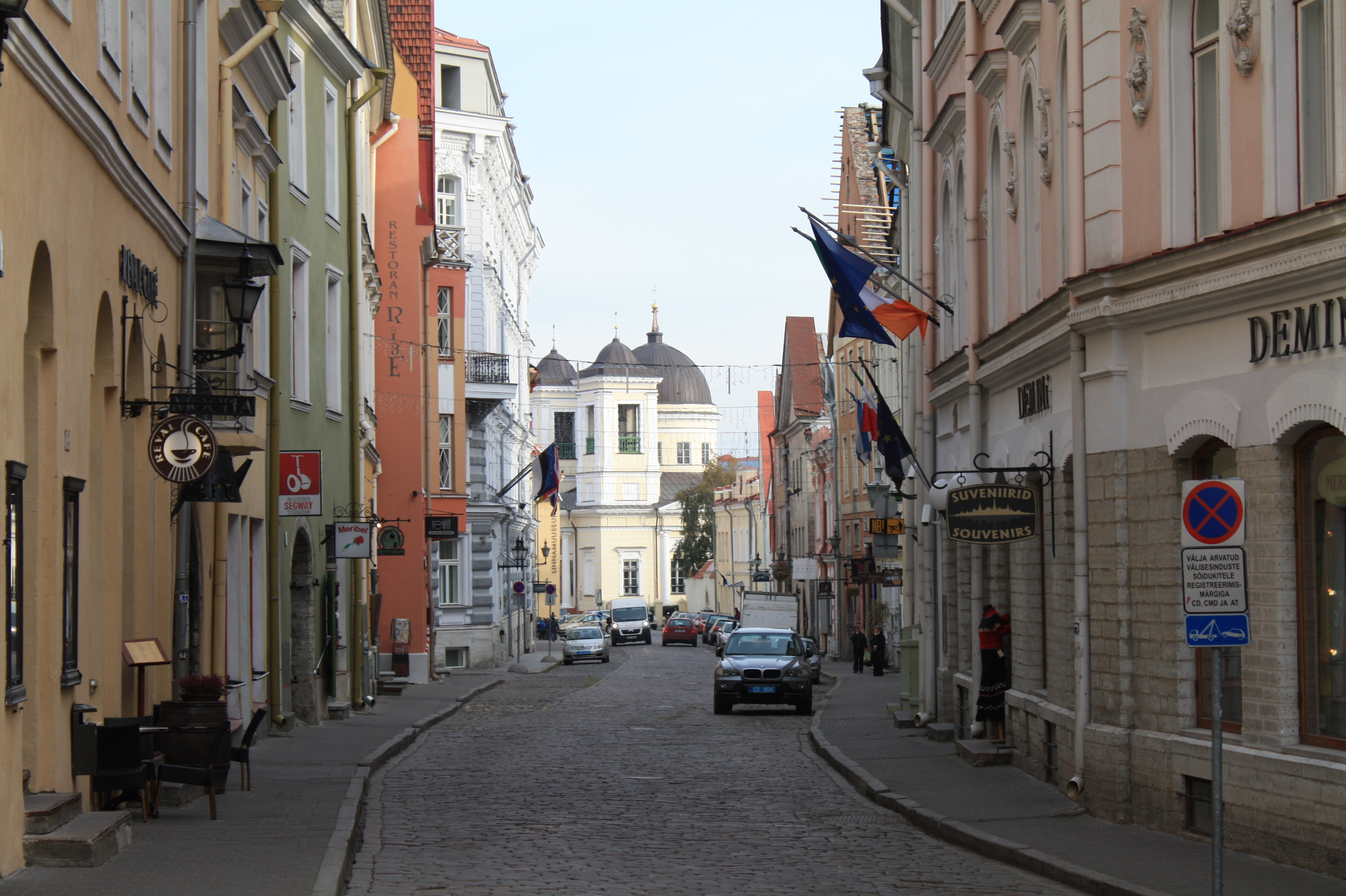 Vene street in Tallinn